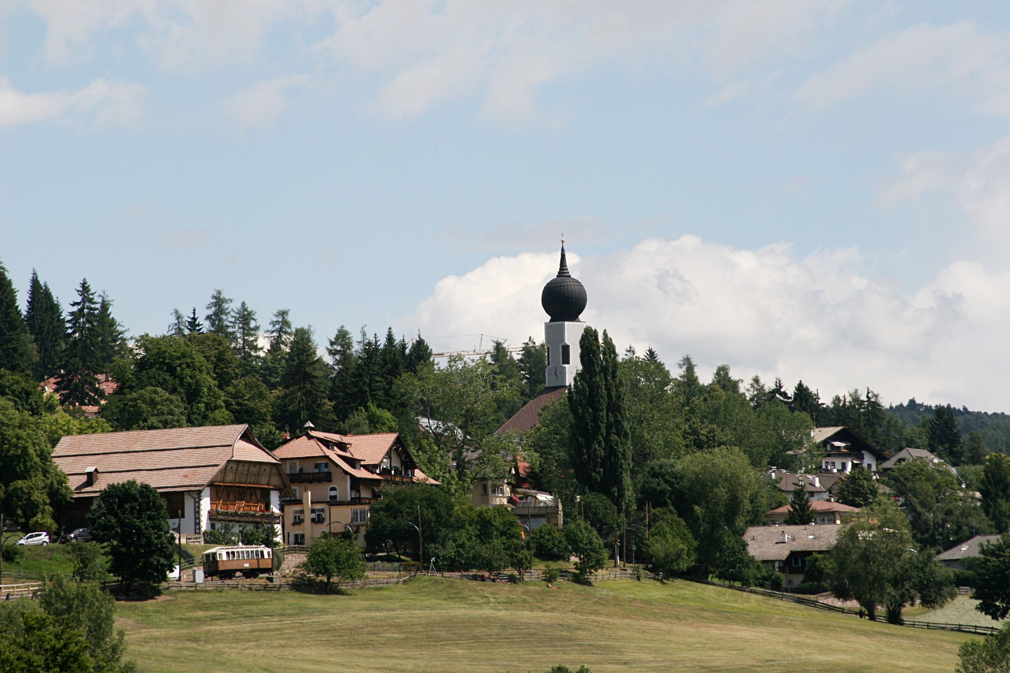 Oberbozen village with a Rittnerbahn railcar.